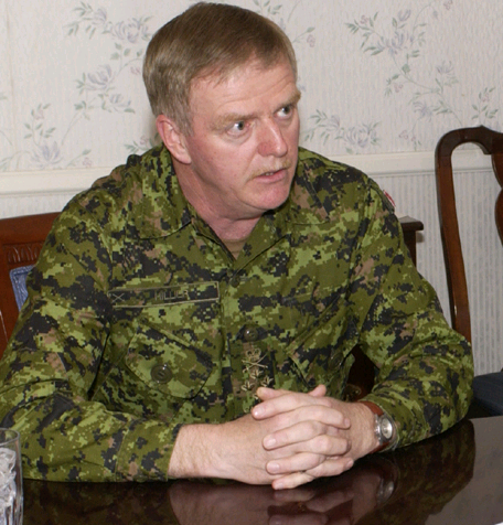 General Rick Hillier giving the keynote at the 2009 ACE National Exposition. Featured in a Toronto Star supplement.